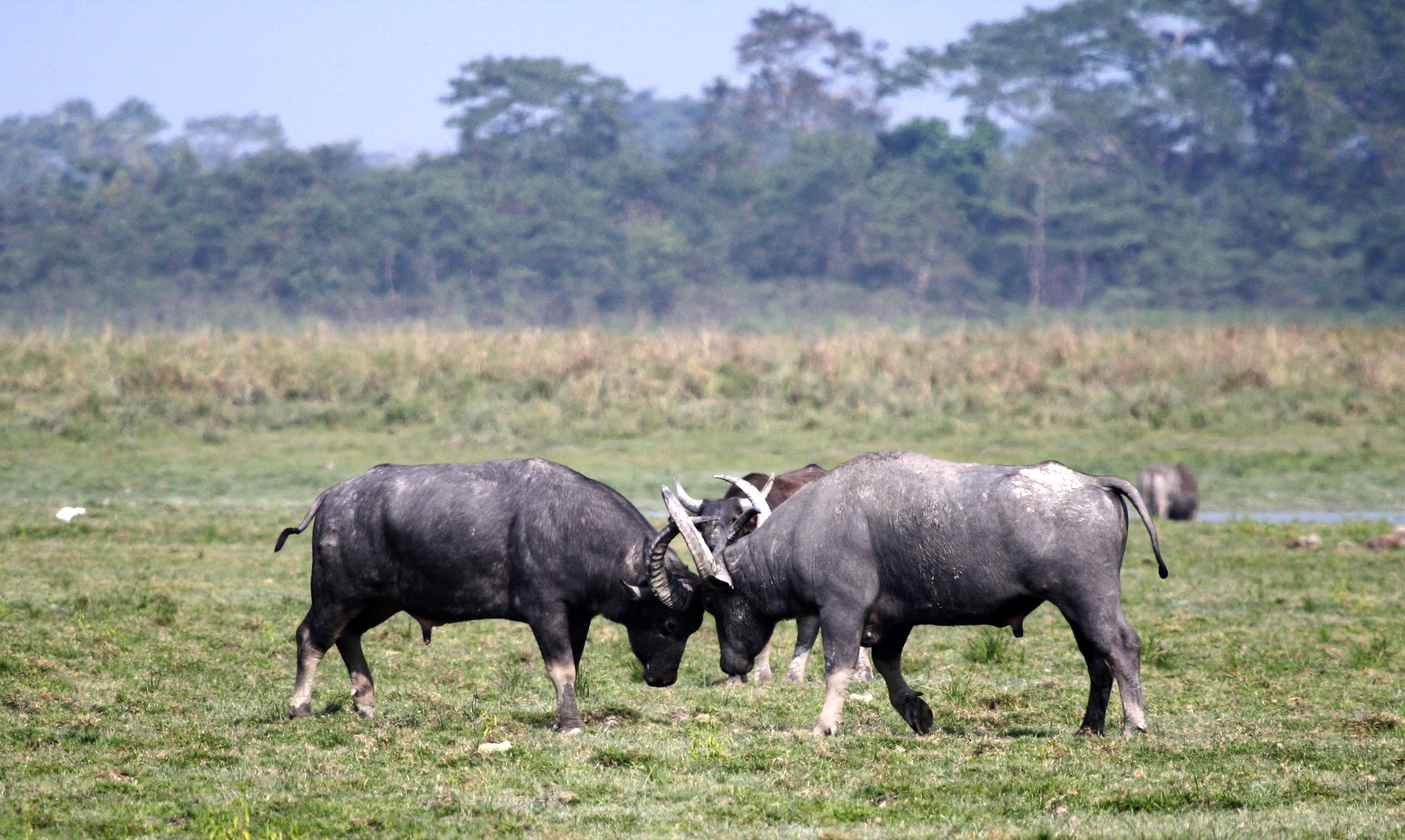 Indian Water Buffalo Bubalus arnee